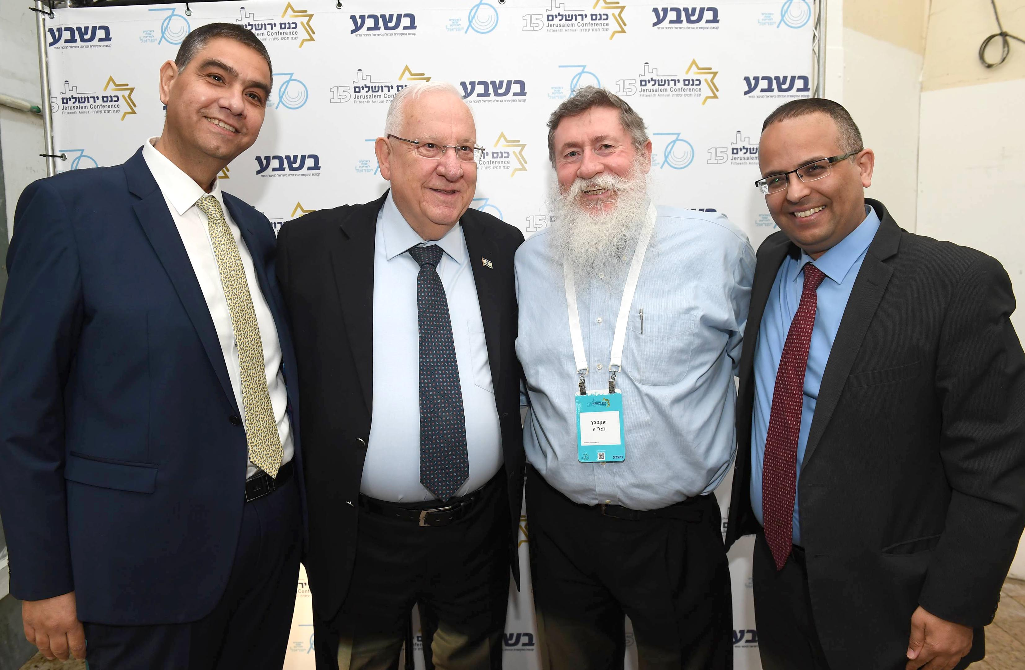 President of Israel, Reuven Rivlin, opens the 15th Jerusalem Conference of the "B'Sheva" group. Monday, February 12, 2018. Photo Credit: Mark Neyman / GPO.